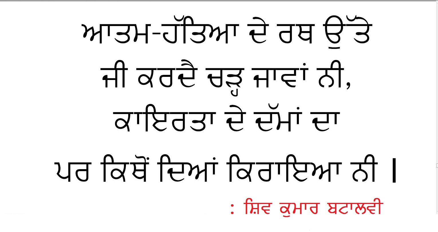 The Legand of Punjab